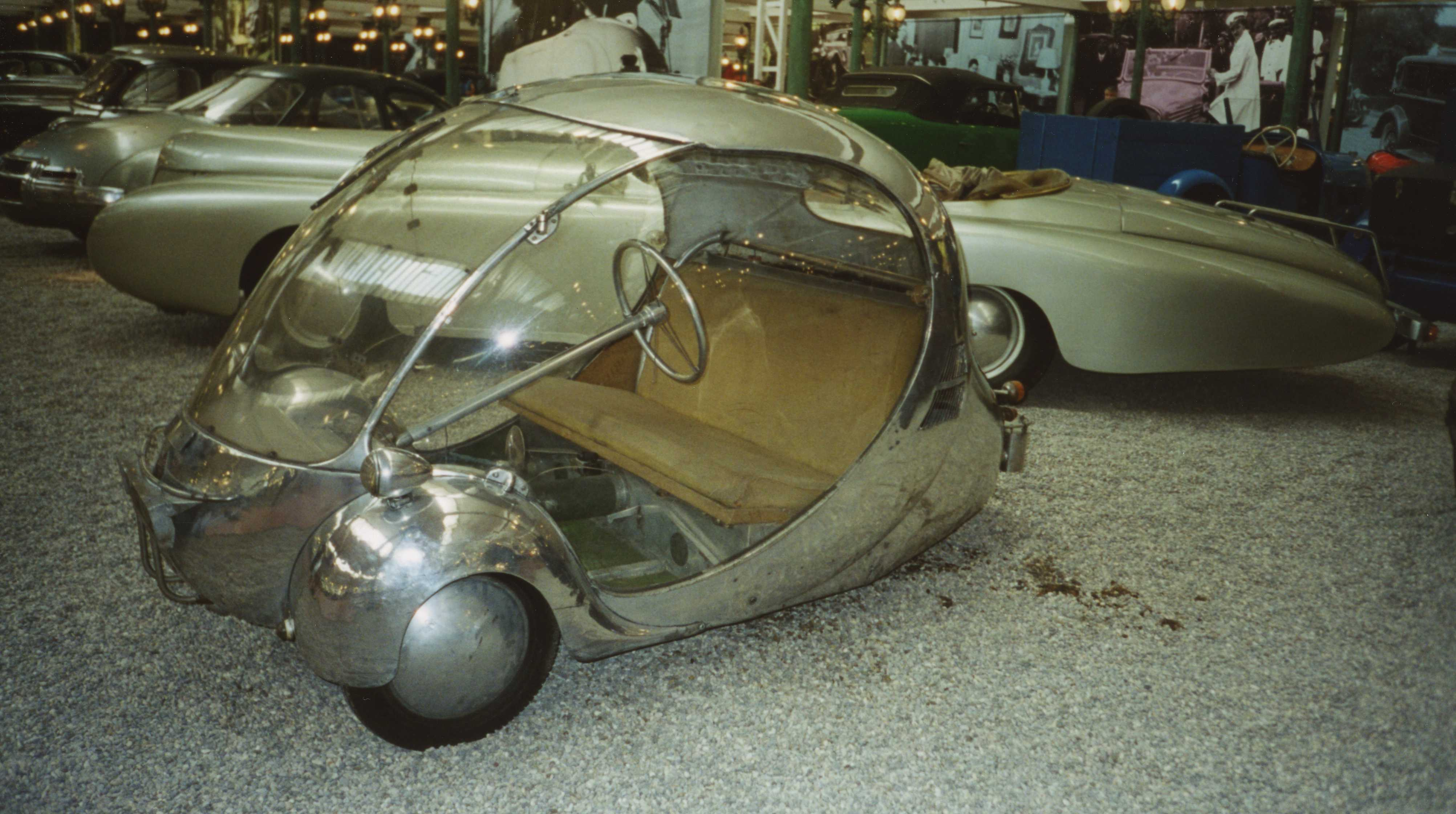 L'Oeuf électrique (The elctric egg) by Paul Arzens, 1942. The car in the background is built by the same French manufacturer. Musée National de l'Automobile (Mulhouse, France).